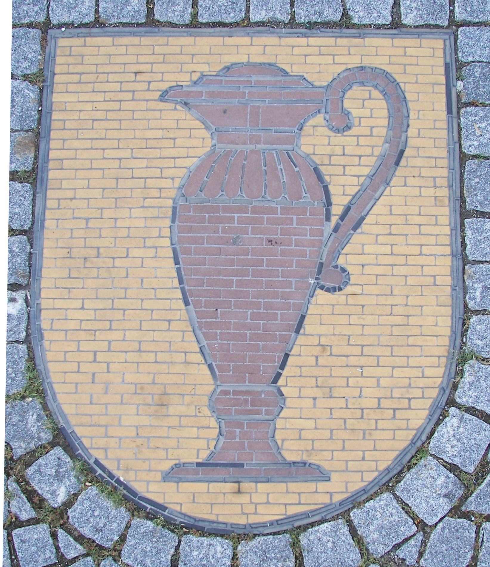 The coat of arms of Kandern as shown on a mosaic at the Blumenplatz in the center of the city.